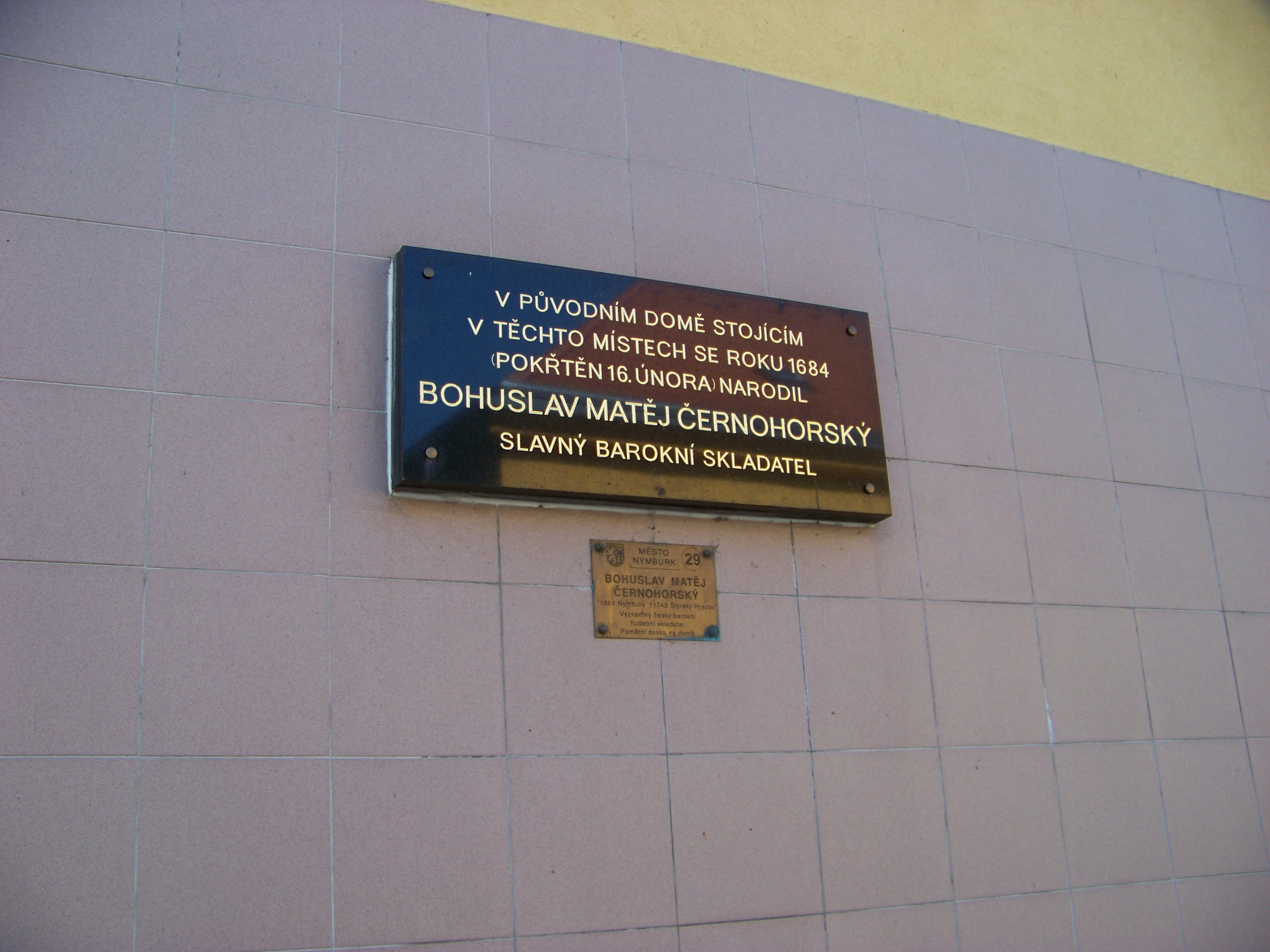 Nymburk, Central Bohemian Region, the Czech Republic. A here-was-born plaque of the baroque composer Bohuslav Matěj Černohorský.